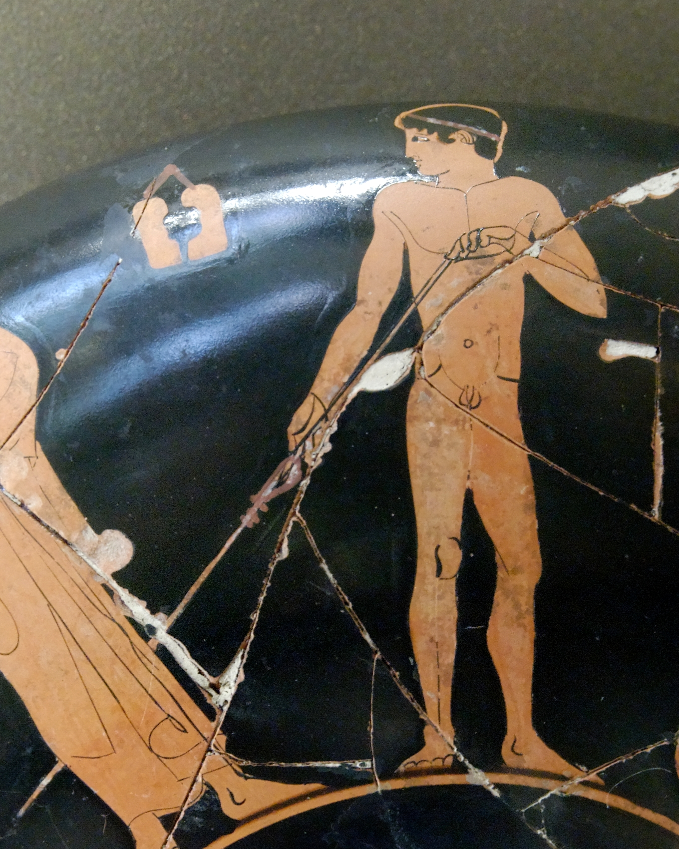 Athlete holding a javelin; near his right hand is a thong (ankulē or amentum) fastened around the shaft which was used to increase the stability and the carry of the javelin. Detail from an Attic red-figure cup, ca. 470 BC. Found in Vulci.